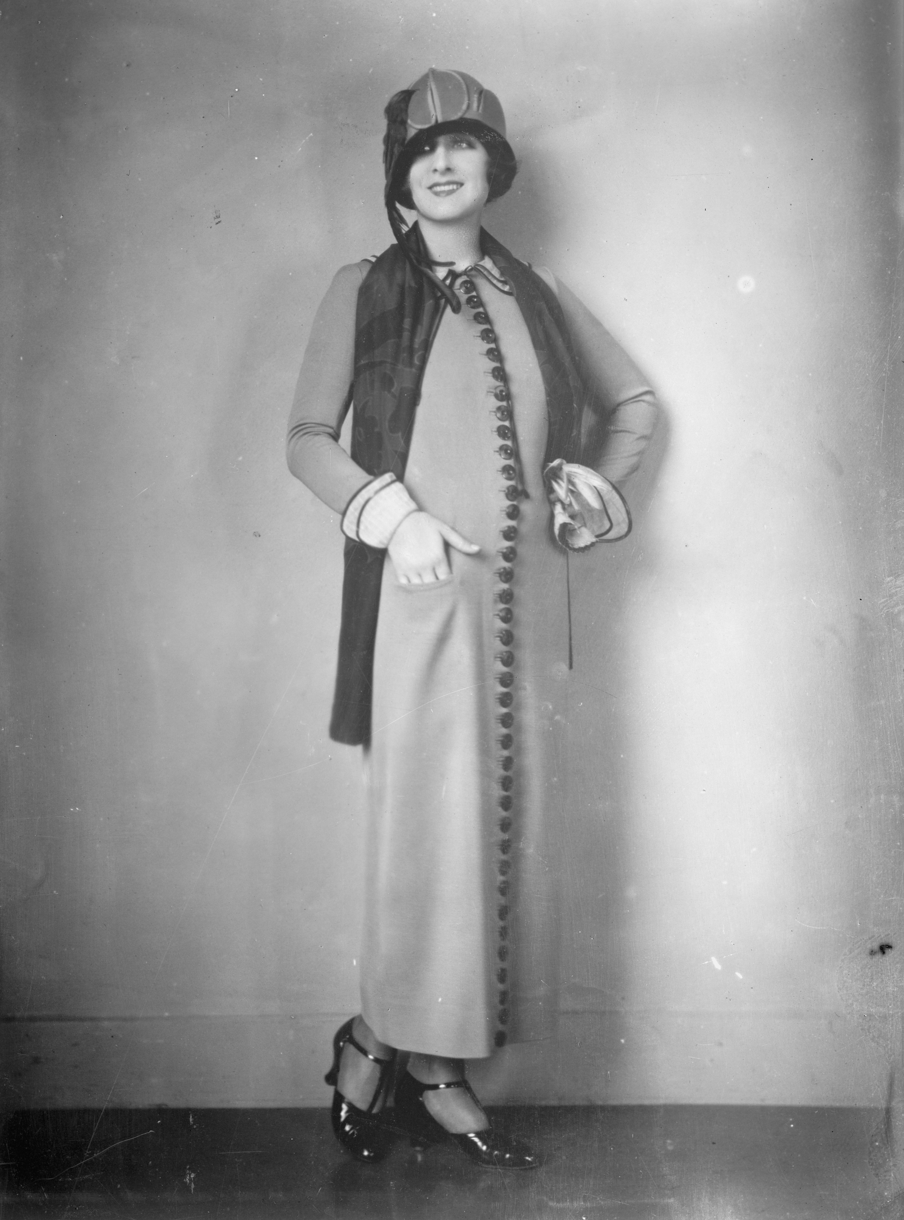 Norma Shearer in long coat.